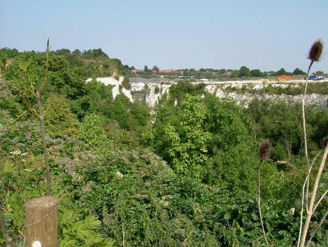 Chafford Gorge. A Chalk Pit disused since the 1970’s. It was taken on by Essex Wildlife Trust as a nature reserve during 2005